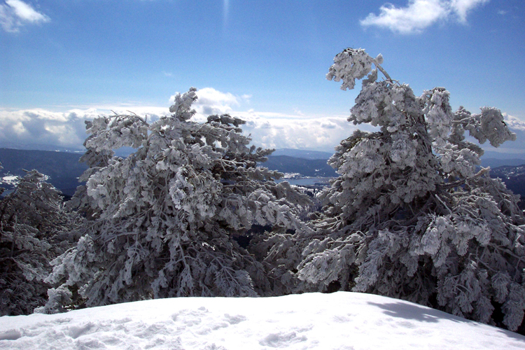 Botte Donato Mountain - Sila National Park